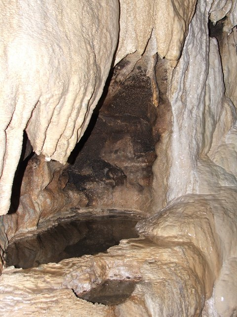 Inside White Scar Caves